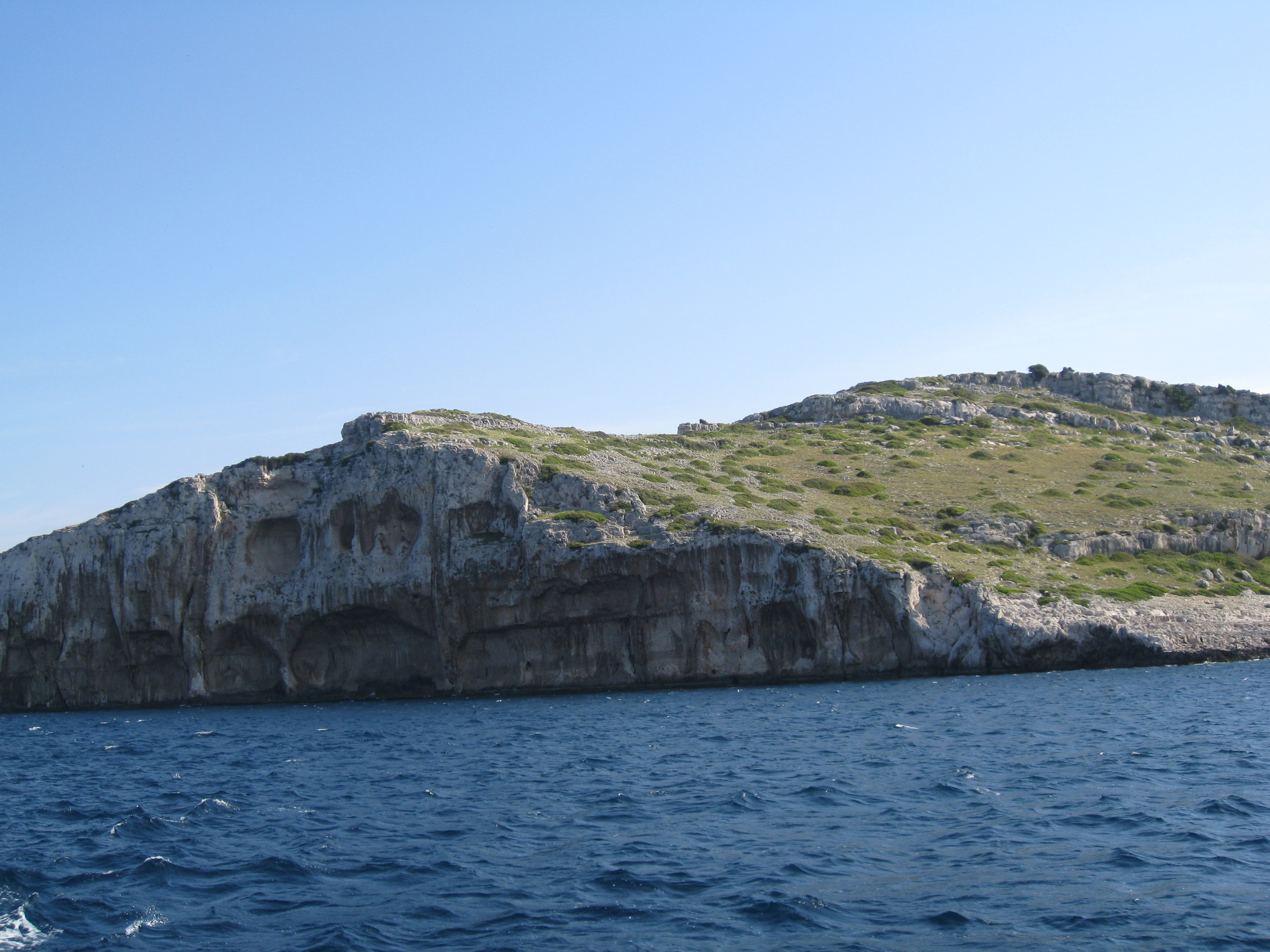 Balun island, Kornati.